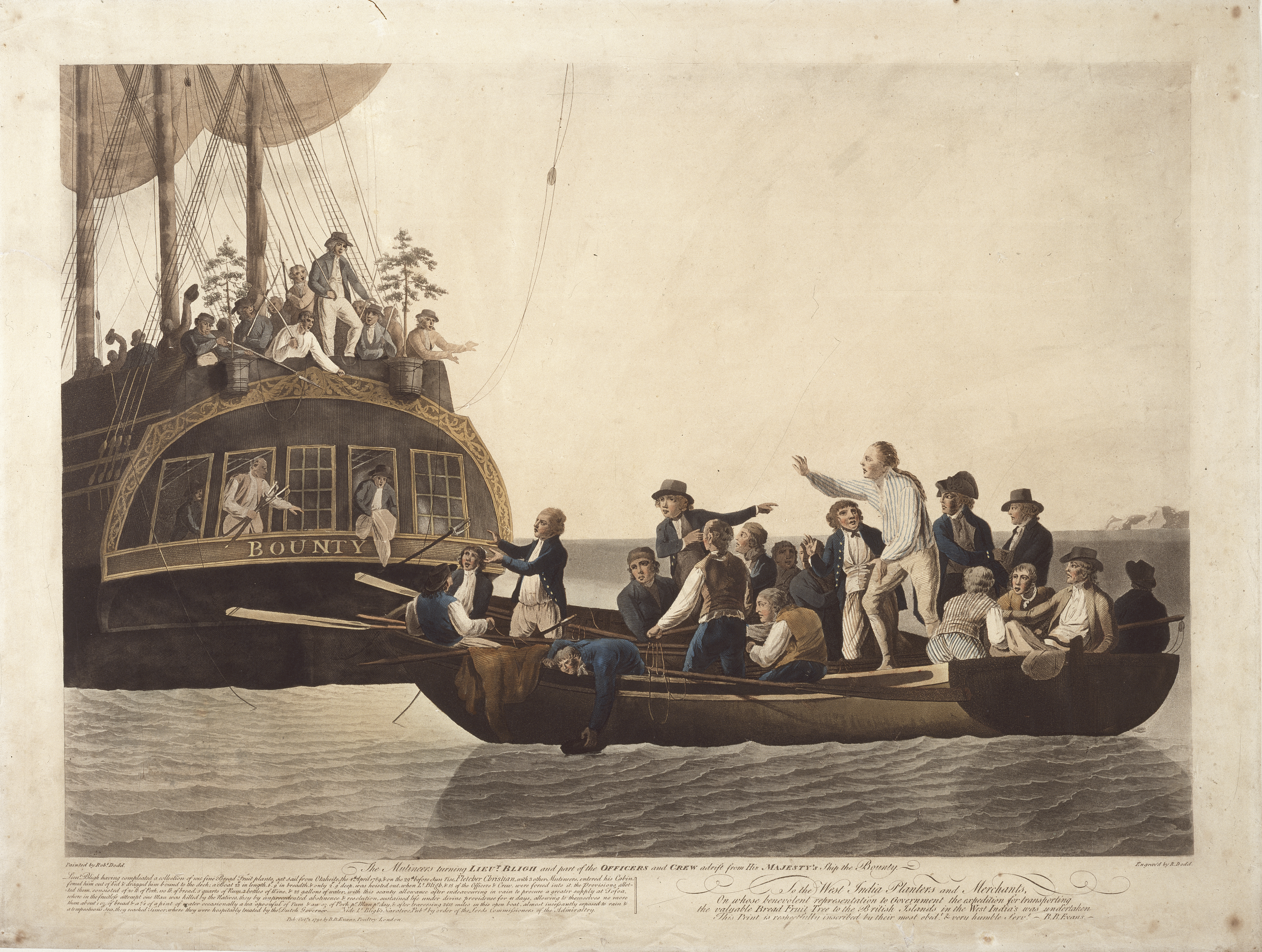 published by B B Evans